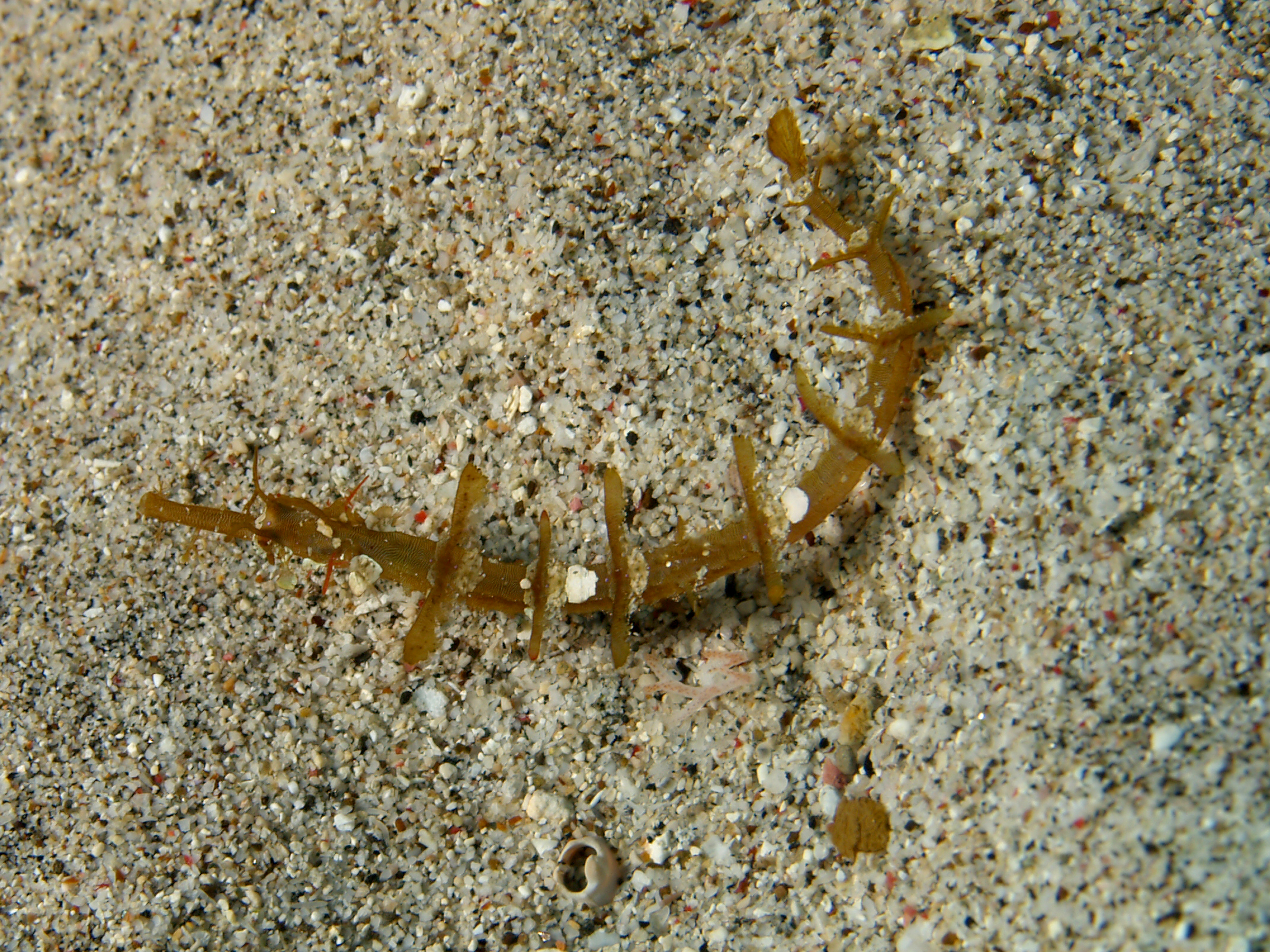 Halicampus macrorhynchus (Winged pipefish) top view